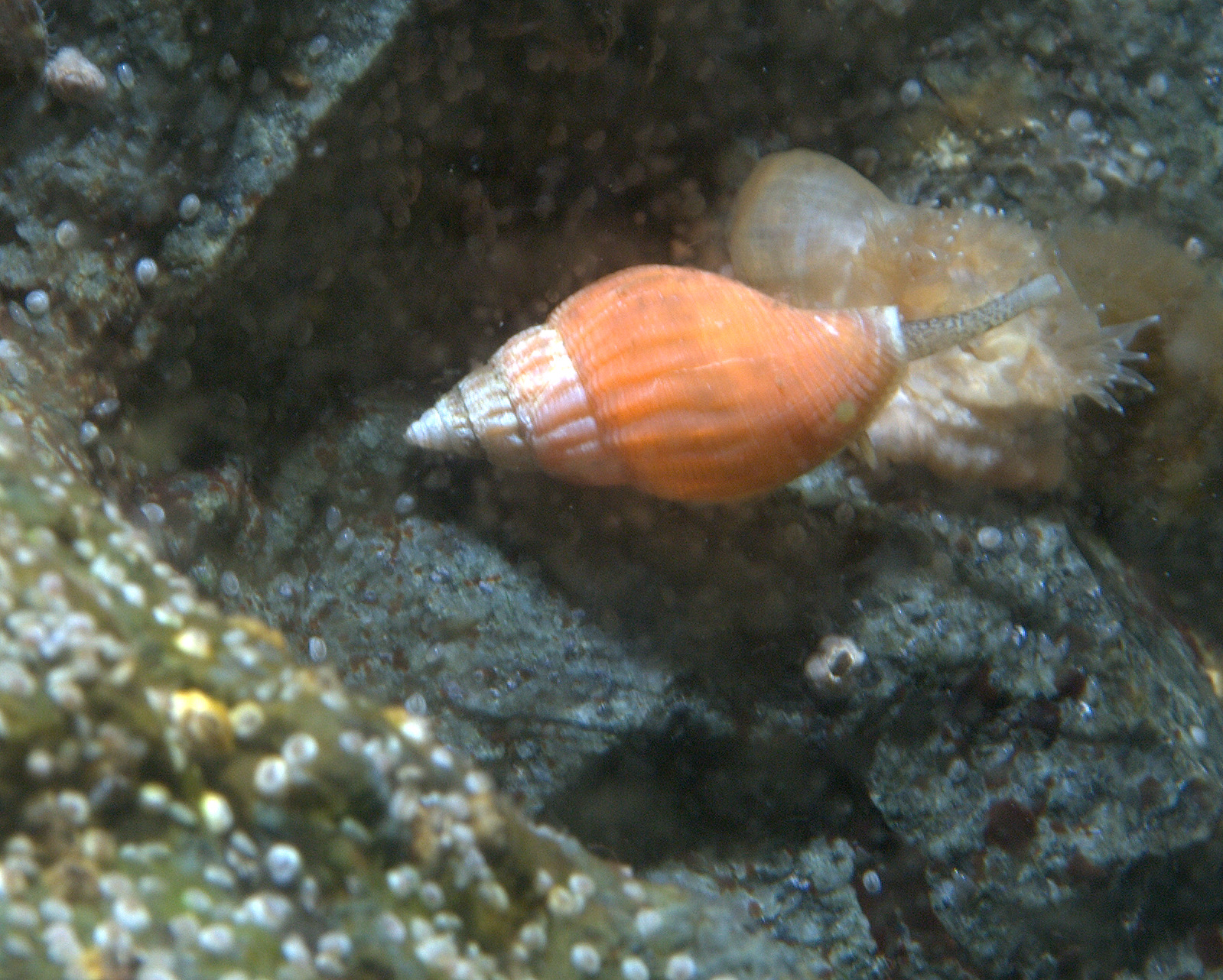 Originally thought to be the orange variety of Amphissa versicolor. However, A. vericolor does not occur as far north as Vancover, where this snail was photograped. Also the ribbing in the shell is pretty much vertical, and the suture is not very pinched in, so this is Amphissa columbiana instead, a more northerly species which can also be orange in shell color.